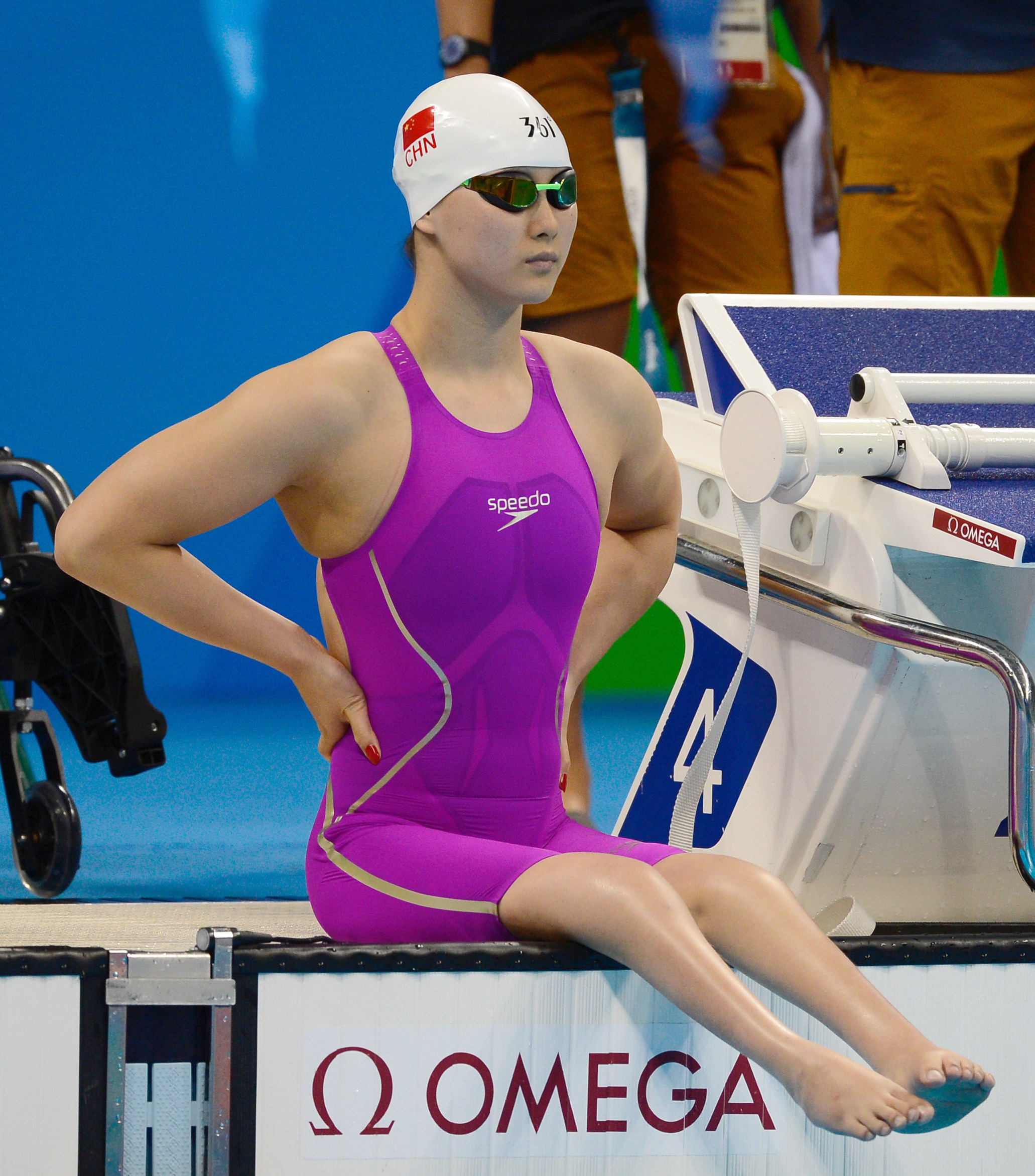 Rio de Janeiro - Song Lingling, of China - (Fernando Frazão/Agência Brasil)